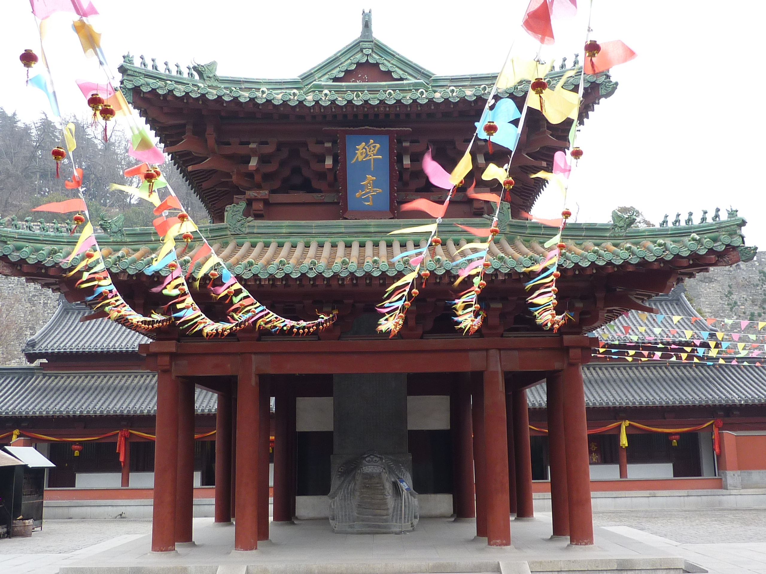 The Stele Pavilion at Tianfei Palace, Nanjing